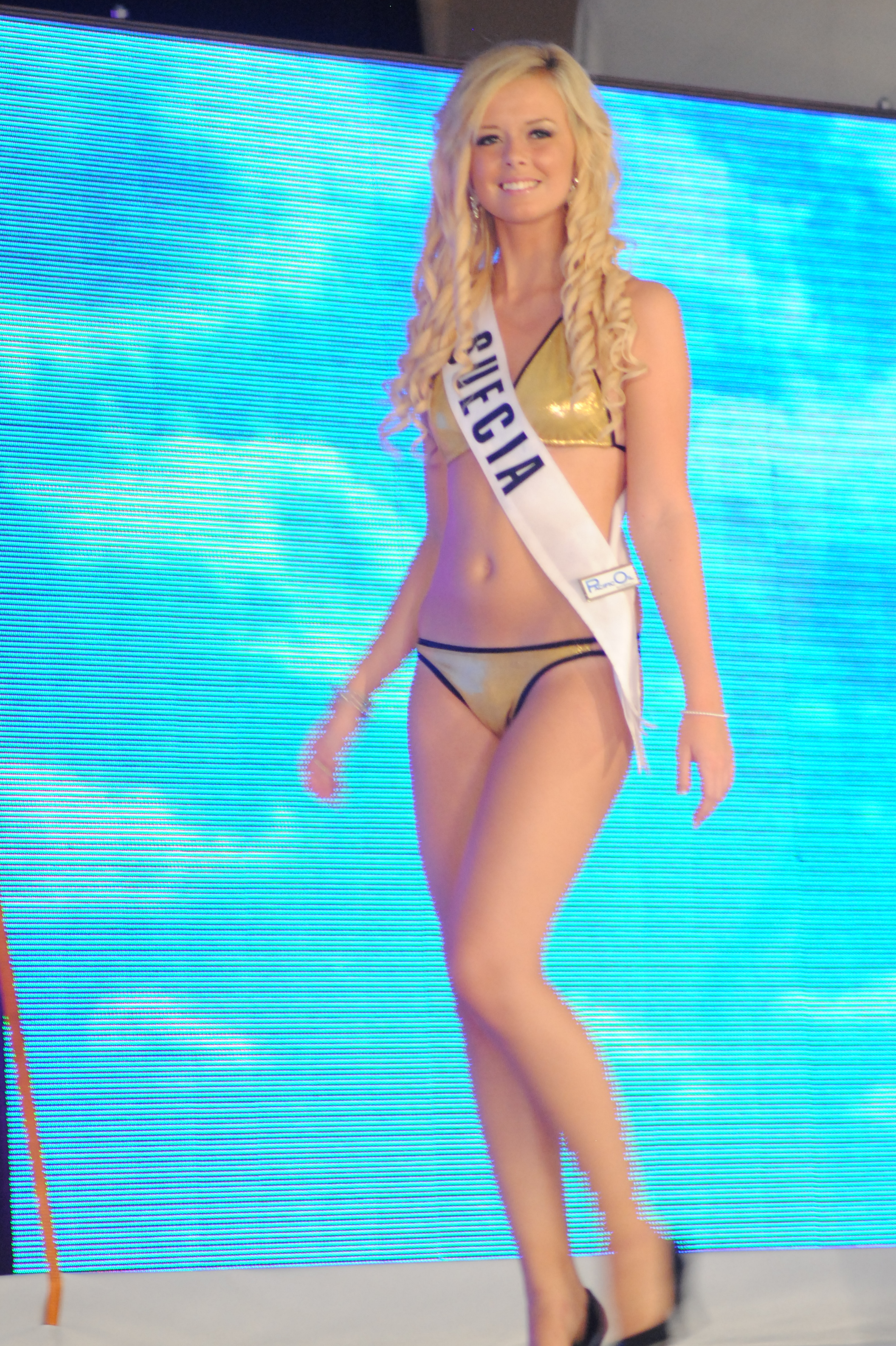 Miss Suecia